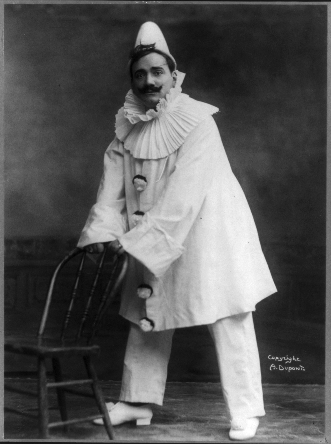 Enrico Caruso, 1873-1921, dressed as clown, holding back of chair, in "Pagliacci"